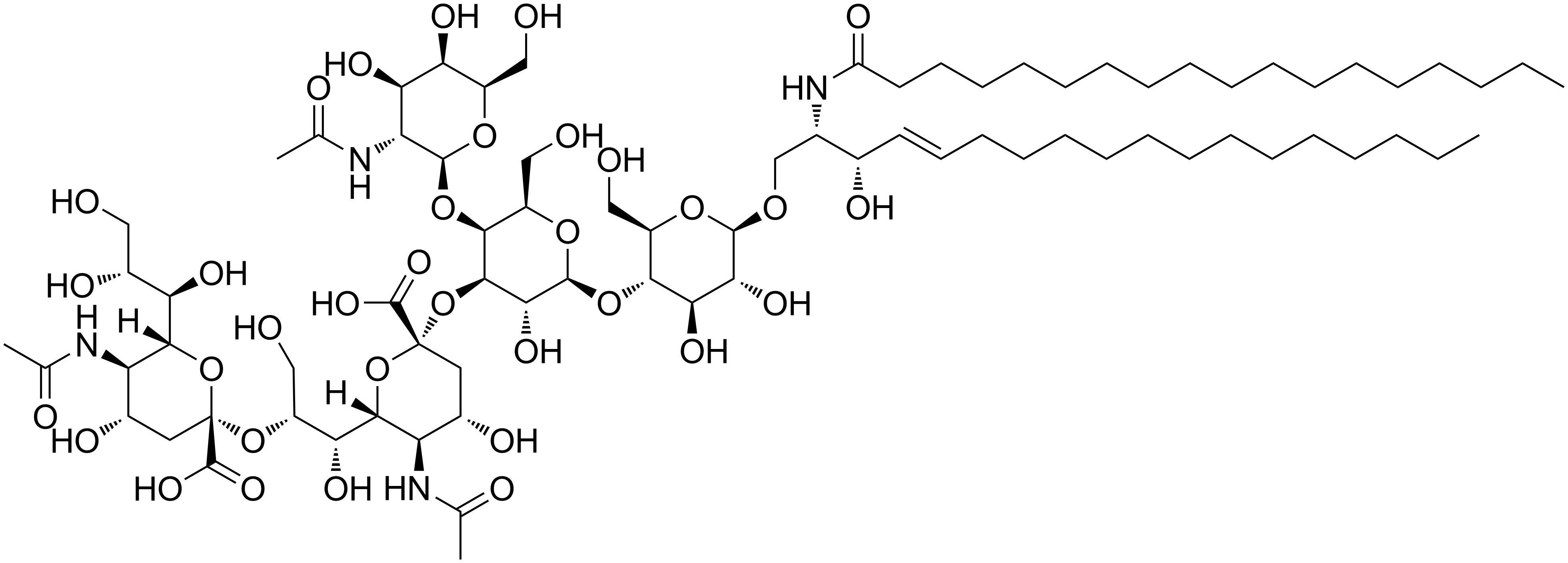 Chemical structure of GD2 ganglioside